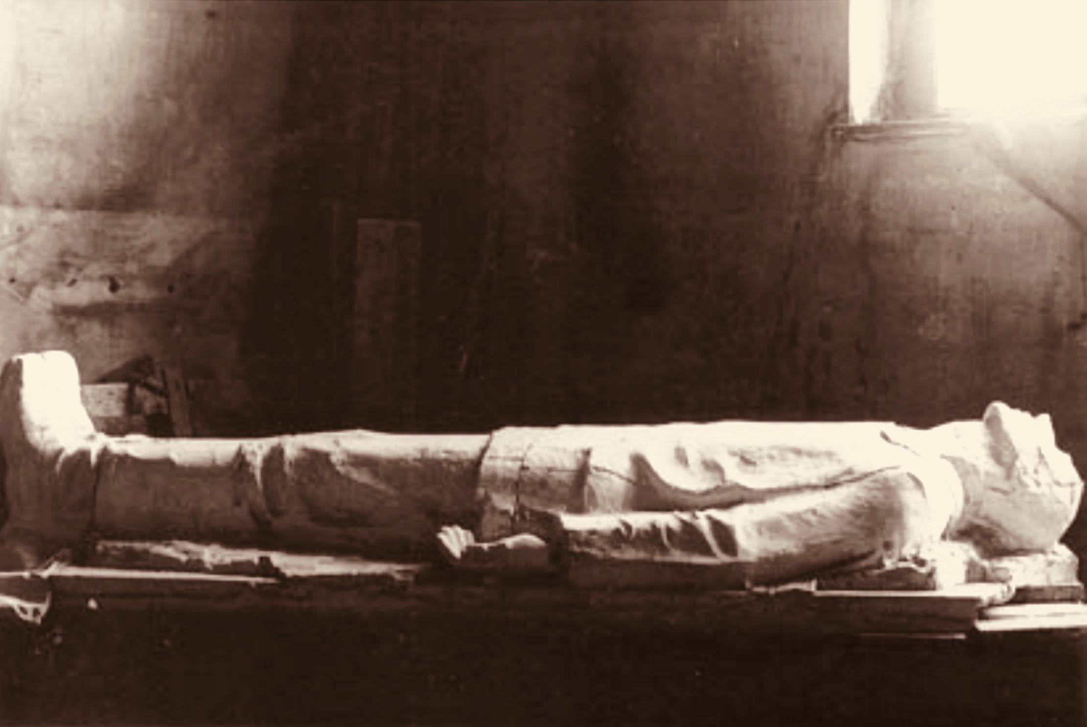 Käthe Kollwitz (1867–1945): Lying dead soldier, plaster model from 1915/16, initially planned for a three-part sculptural group of the monument Mourning Parents at the German military cemetery Esen-Roggeveld in West Flanders, Belgium. The profile of the plaster model shows the facial features of Peter Kollwitz (1896–1914).